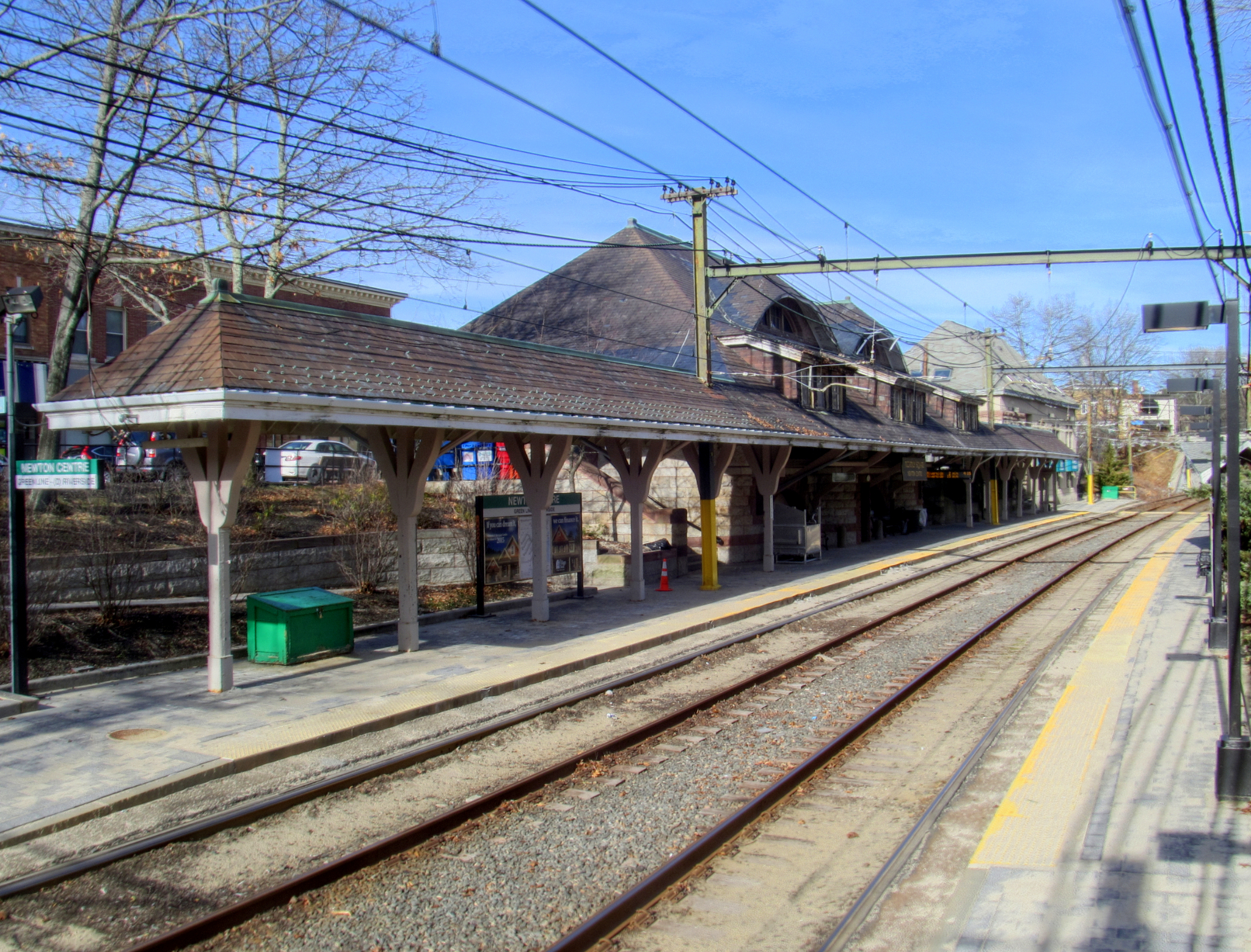 Newton Centre station viewed from the outbound platform in March 2016